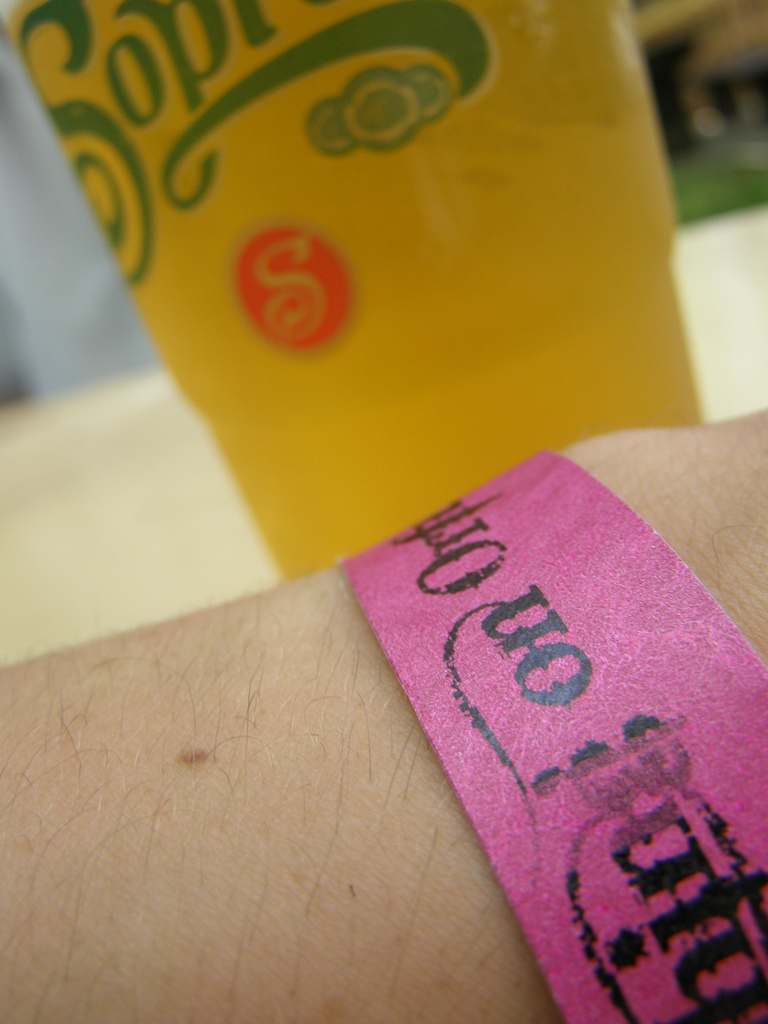 Beer and paper bracelet on Fishing on Orfű Alterfest, near Pécs, Hungary.